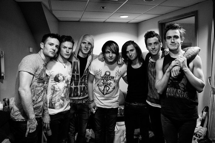 That Sunday Feeling McFly Above the Noise Tour - Forever Wear.jpg